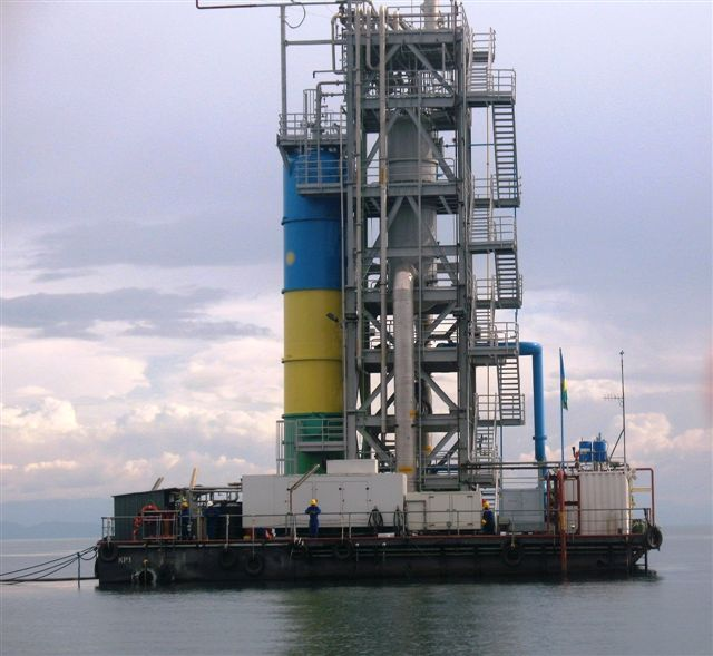 The methane extraction platform at Lake Kivu. Based on the success of this pilot, ContourGlobal – a U.S. power developer active in developing countries – is constructing a $325 million, 100MW power plant at Lake Kivu that will help address Rwanda’s enormous power needs. Photo courtesy of the American Embassy in Kigali.